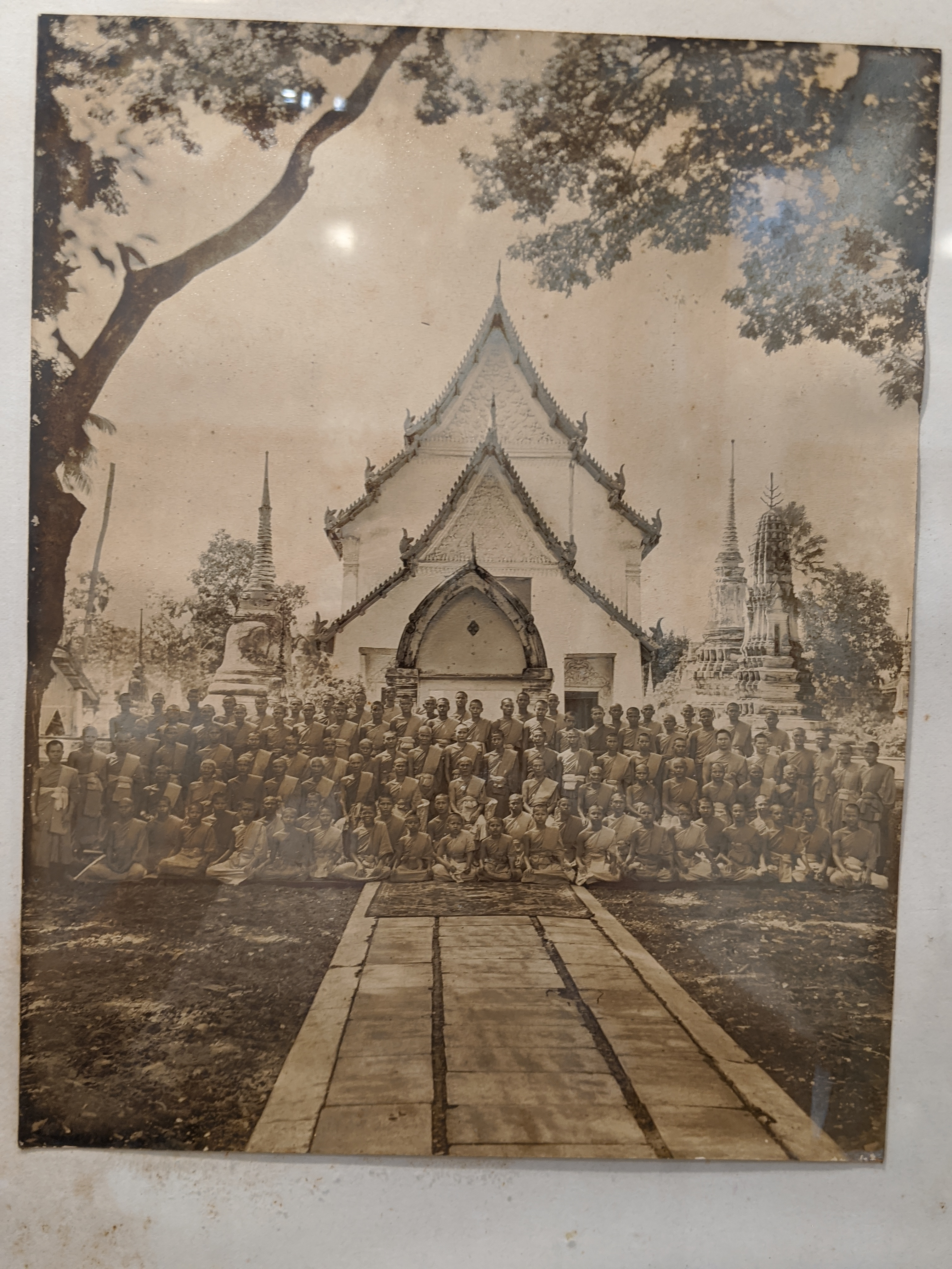 old photograph of luang pu sodh with his monks